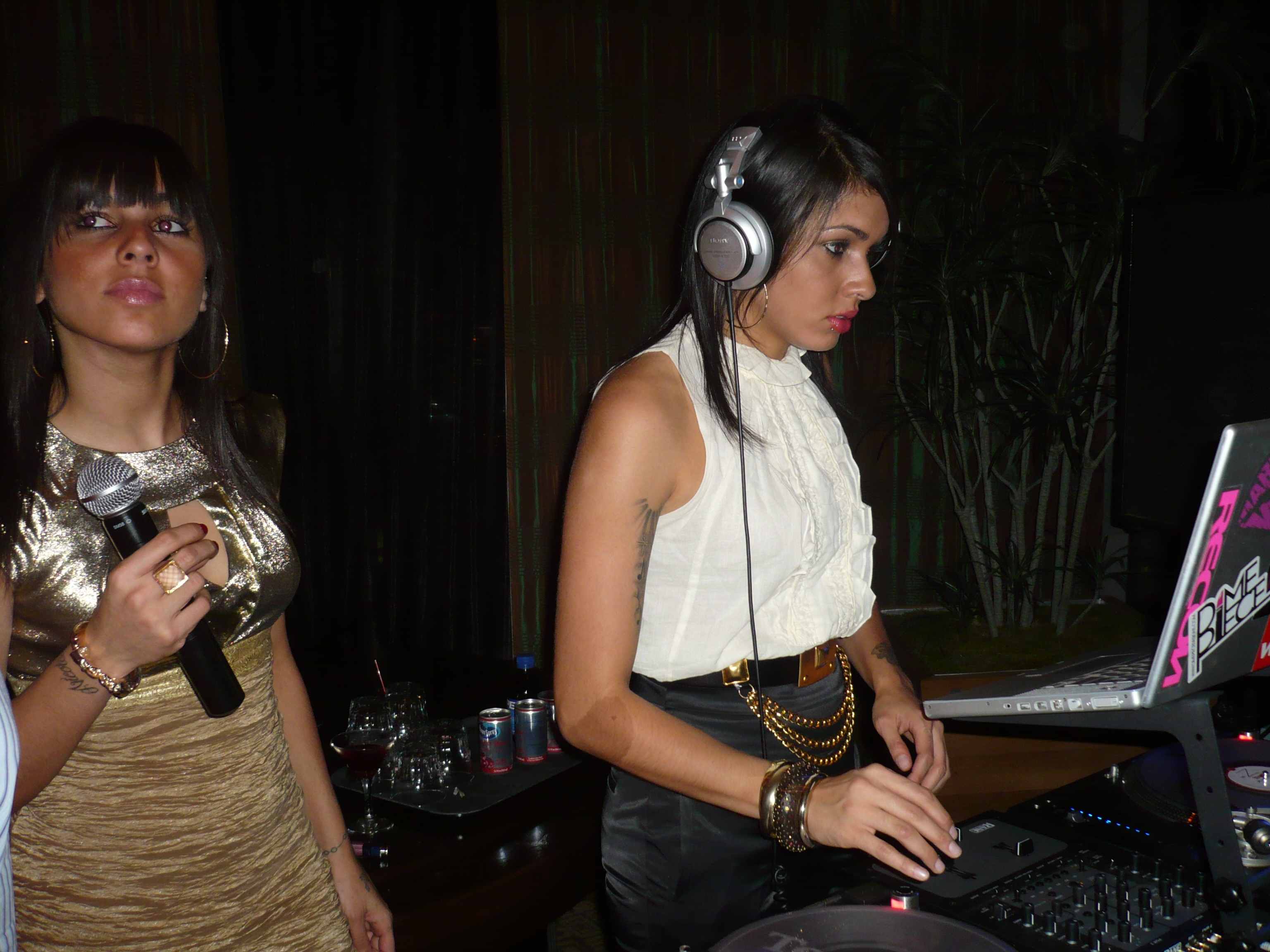 Nina Sky (musical group comprised of identical twins Nicole and Natalie Albino) performing